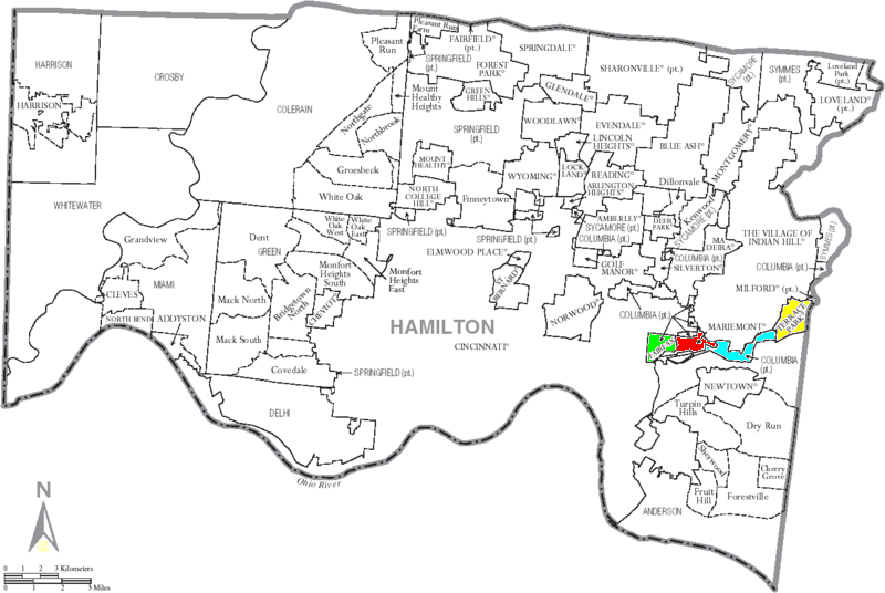 Map of Hamilton County, Ohio, United States showing Mariemont School District by Political Constituents